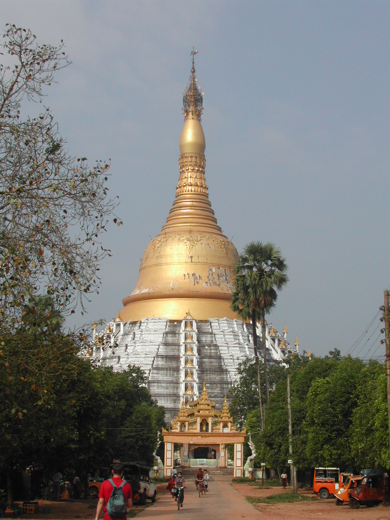 Mahazedi Paya in Bago, Myanmar.